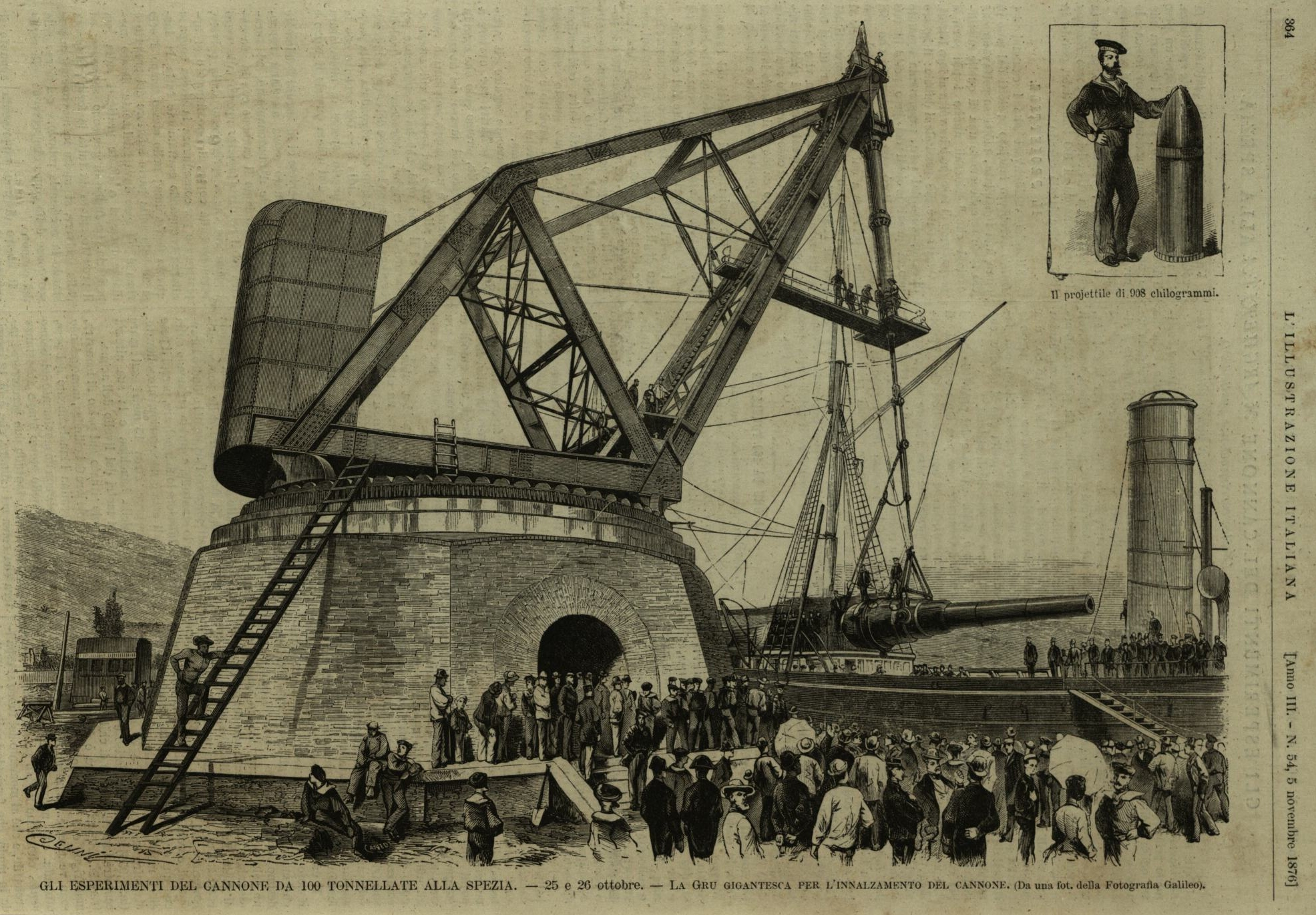 In October 1876 the first gun for the Italian Duilio-class battleships was taken over in Newcastle, named Margherita and shipped to Italy on the steamer Europa. This illustration shows its arrival in La Spezia later in October. The L'Illustrazione Italiana No. 54 from November 5, 1876 had an article on page 363 and this picture on page 364. The illustrator is not mentioned, but the signature says something like "Cenni".